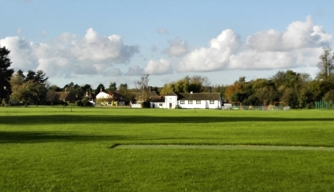 The village green and cricket field in Bradenham, Norfolk; a cropped version of File:Village Green - .uk - 600750.jpg